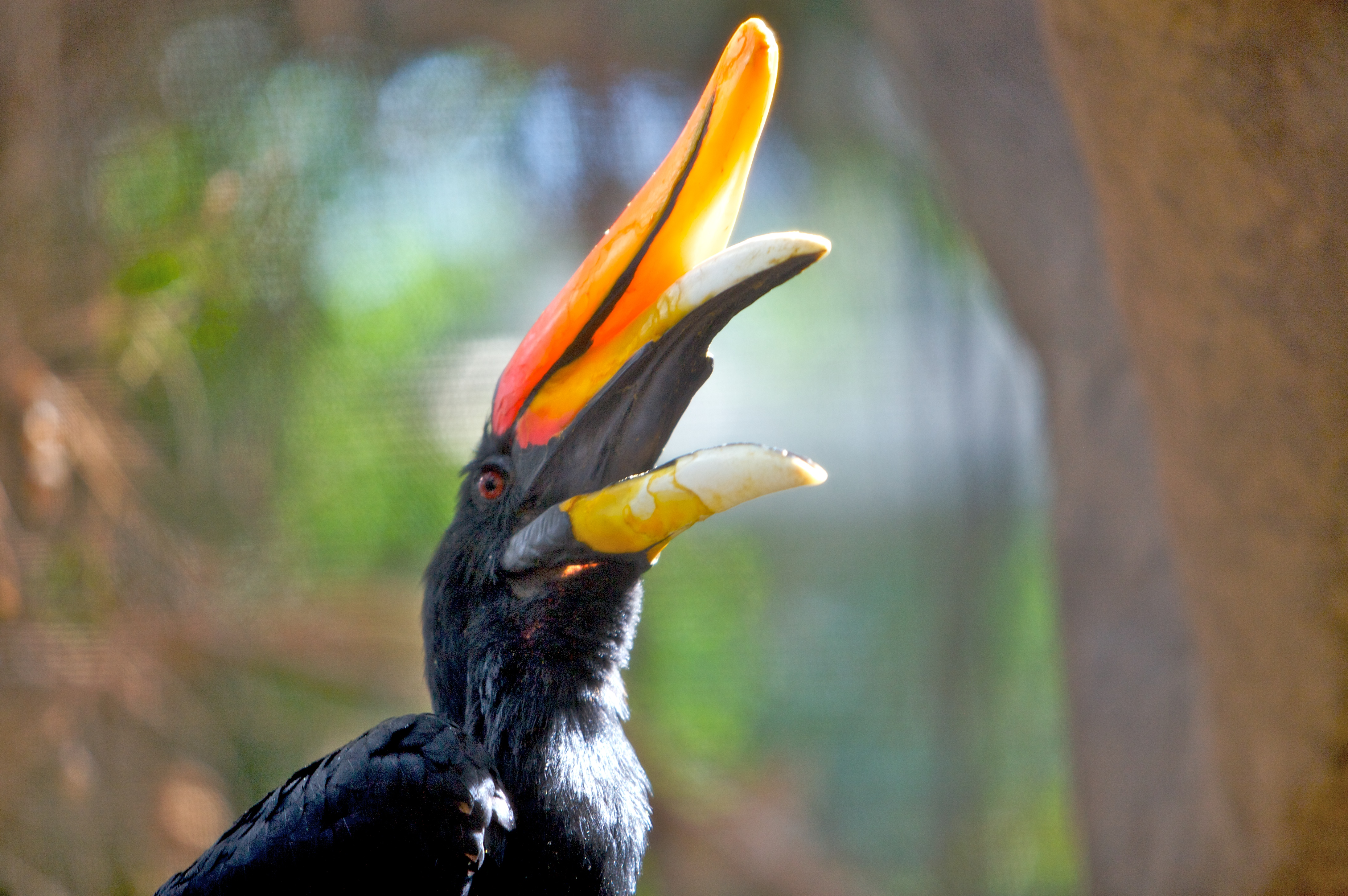 Rhinoceros Hornbill at Minneapolis Zoo, USA.